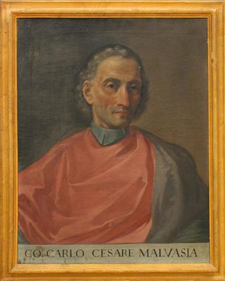 Portrait of Carlo Cesare Malvasia.